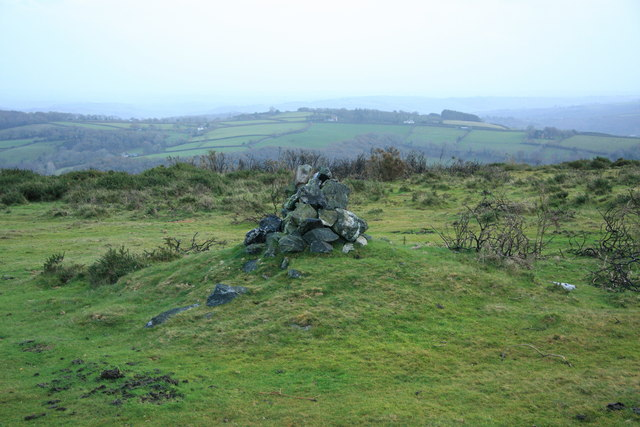 Aish Tor The summit cairn on a very dull day.